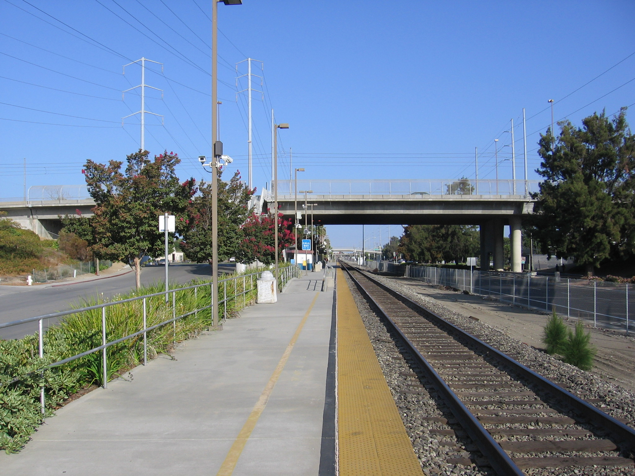 The Great America – Santa Clara Station in Santa Clara, California, USA.